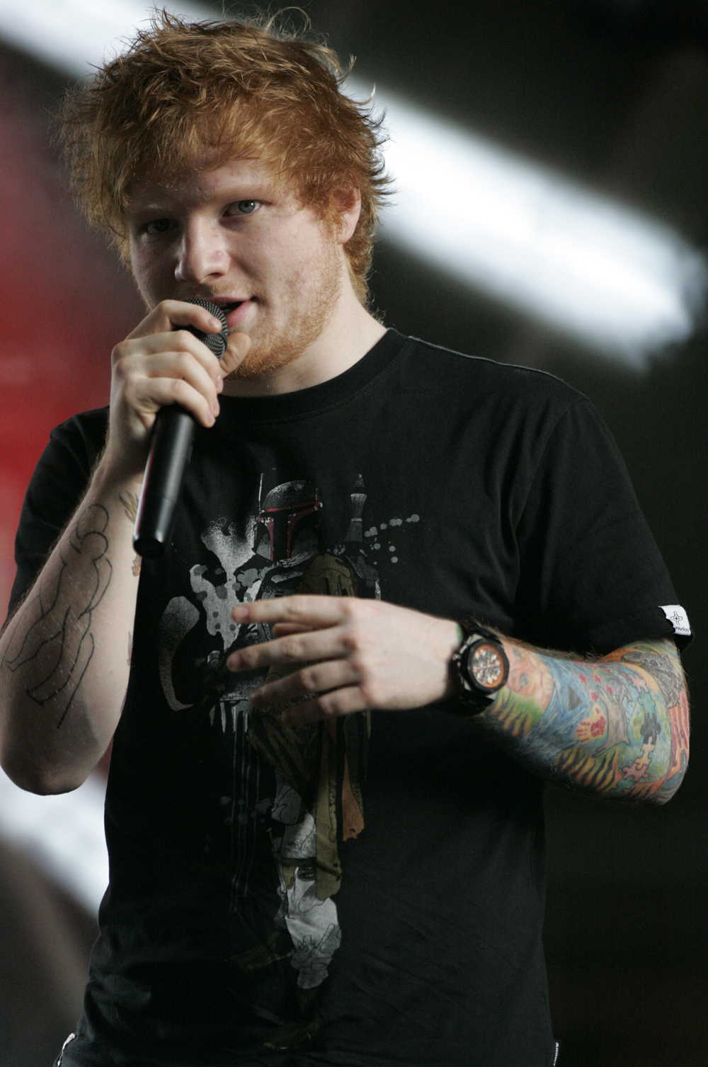 Ed Sheeran